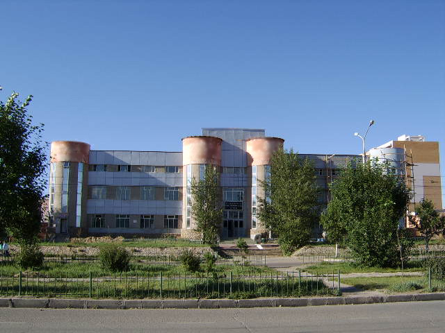 The building of the Military Club is an example of post-revolutionary architecture of Mongolia built in the principles of constructivism. Photographer Gantuya